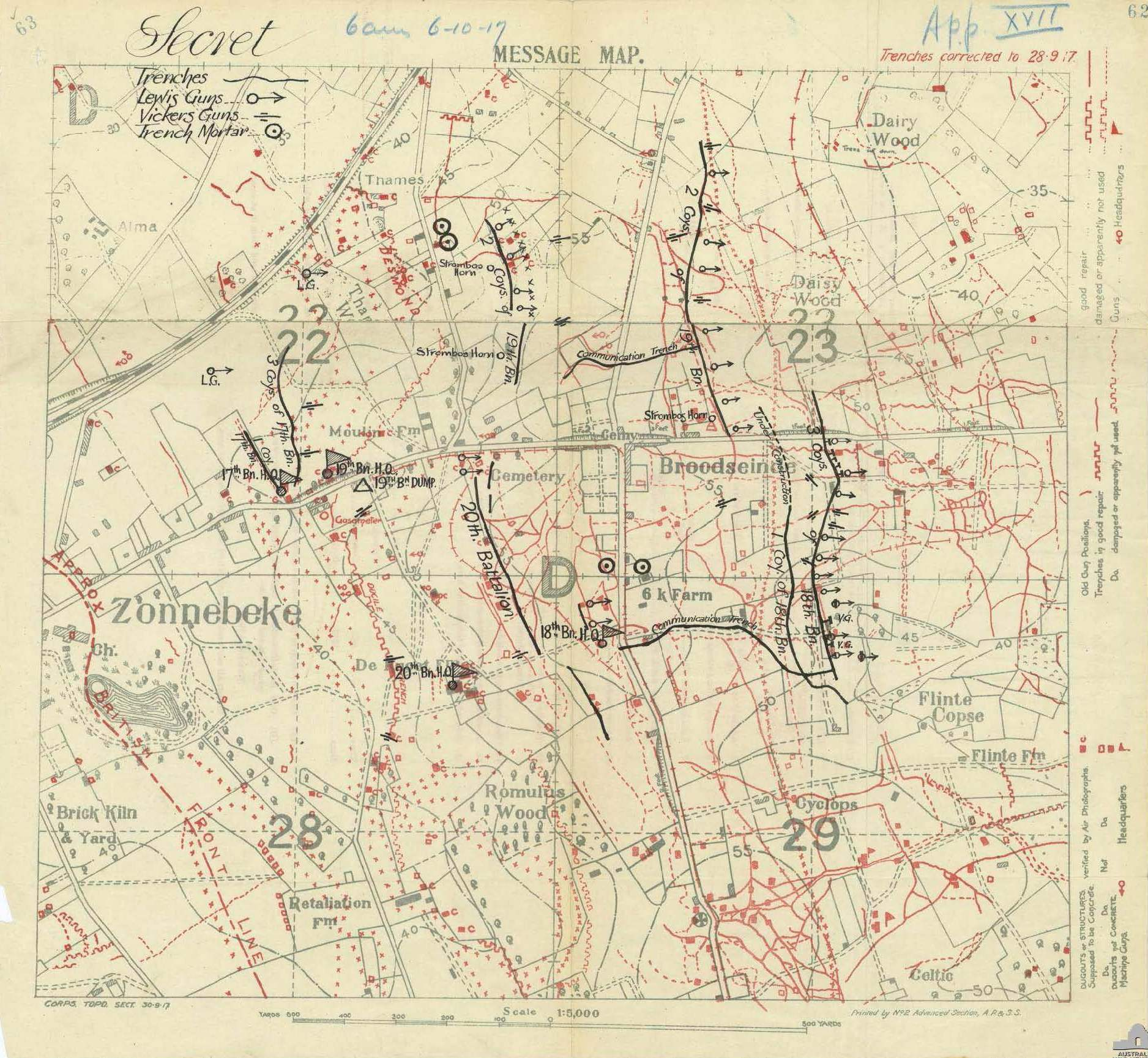 1:5000 scale message map detailing the disposition of troops around Broodseinde at 6am 10 October 1917.